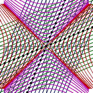 This is a single frame from Image:Animated Lorentz Transformation.gif, an animation